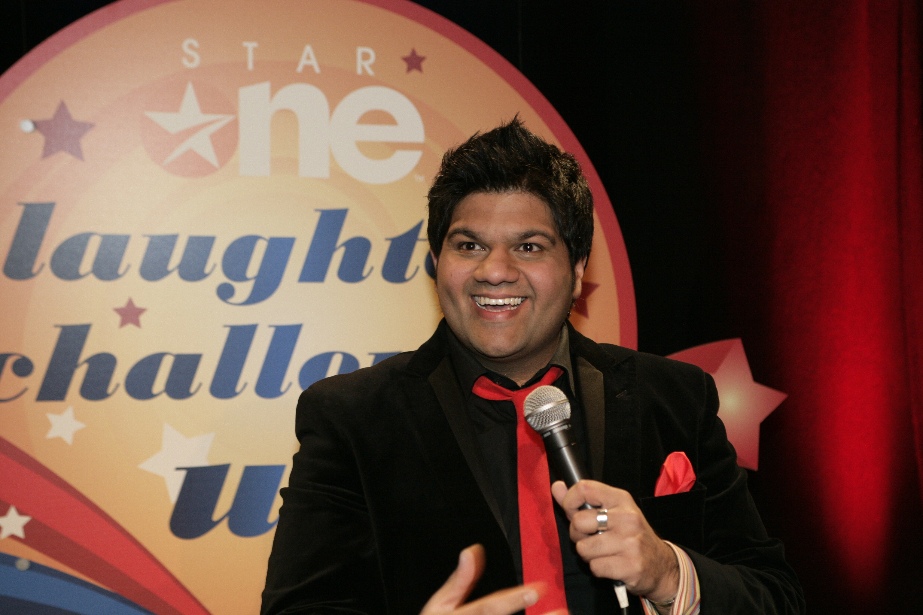 Mani Liaqat at Star One Great Indian Laughter Challenge UK